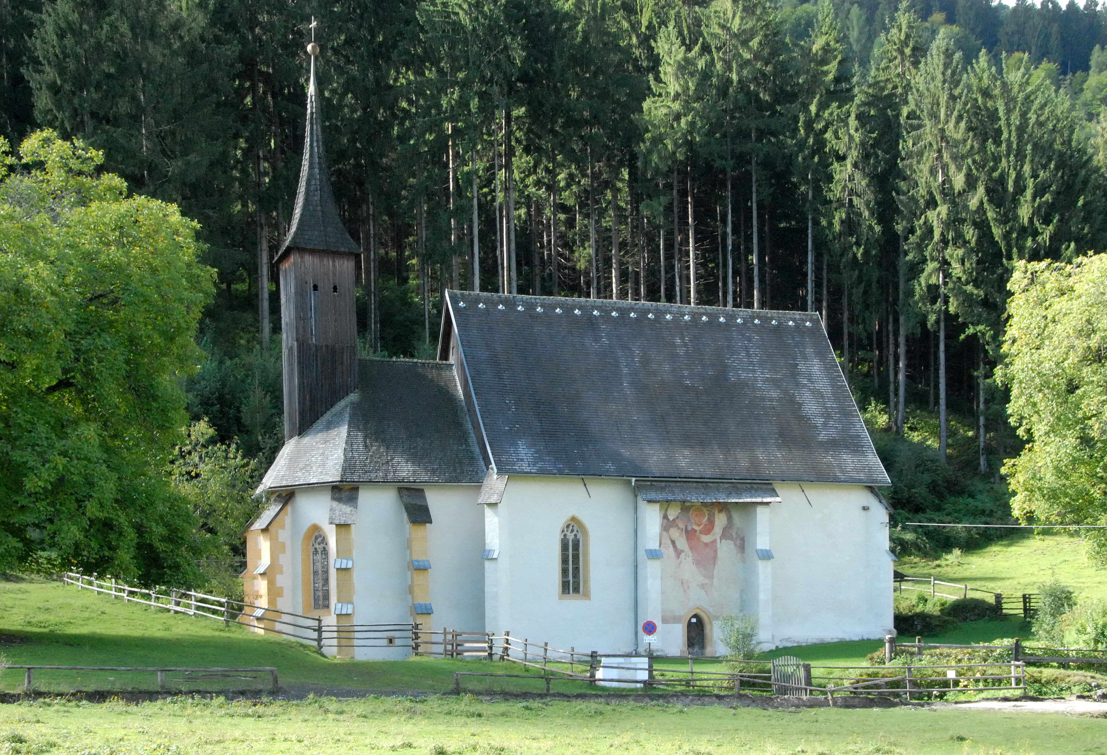 Pilgrimage church Maria Siebenbruenn at Radendorf, market town Arnoldstein, district Villach Land, Carinthia, Austria, EU